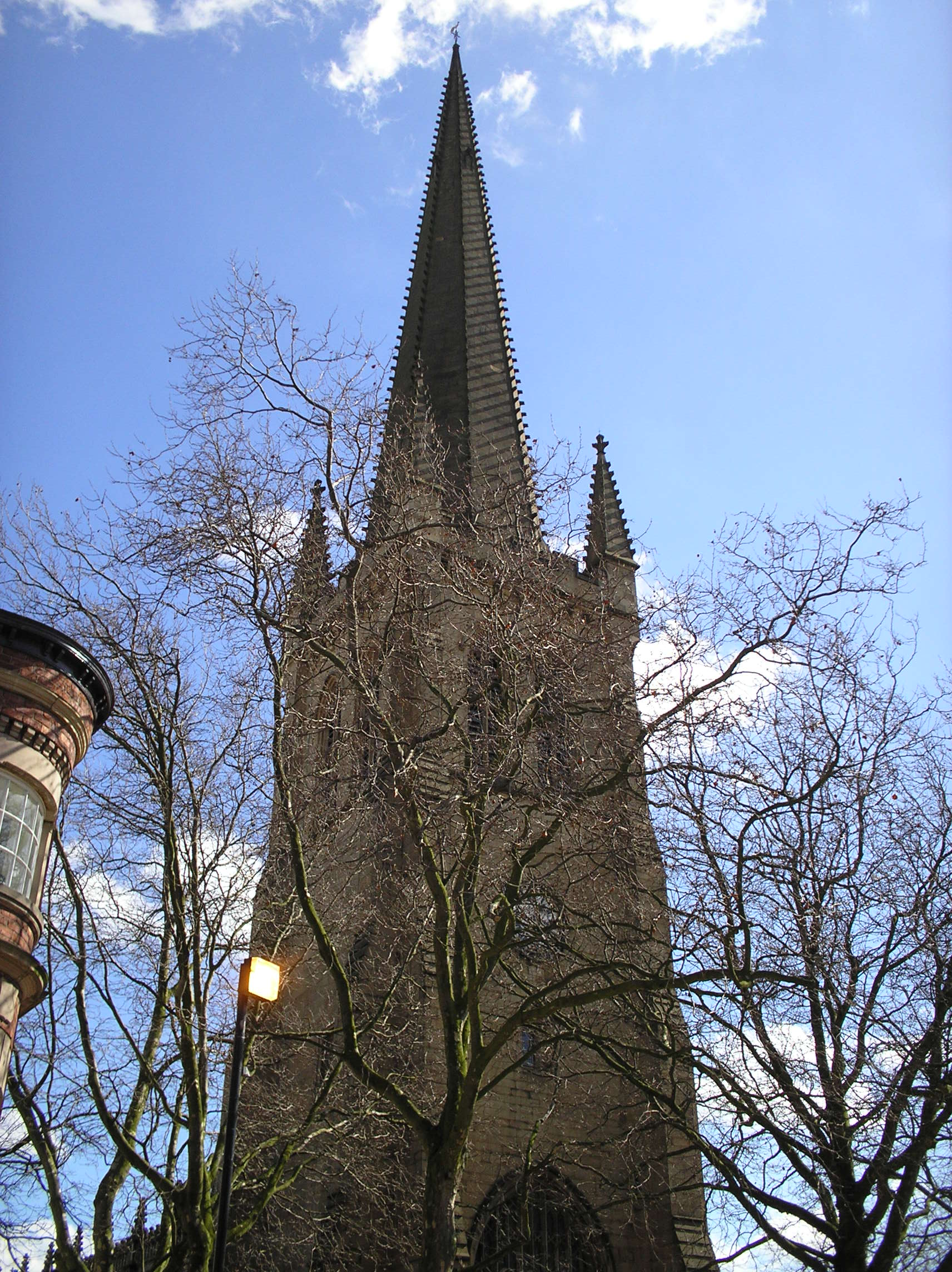 The Cathedral spire (247'), Wakefield